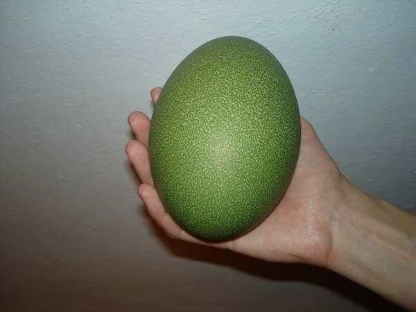 Casuarius casuarius, a freshly laid egg